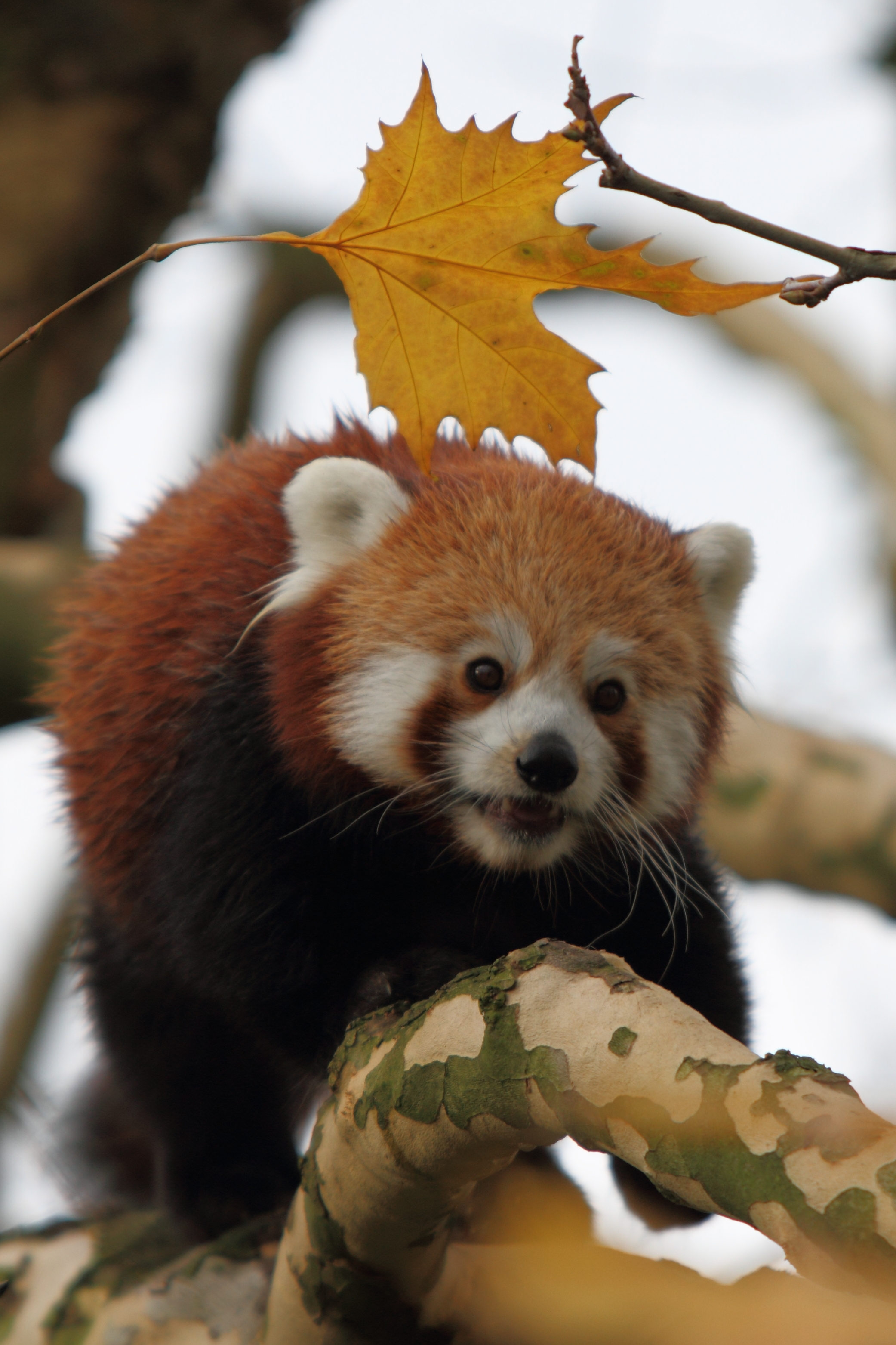 Red Panda at Diergaarde Blijdorp (Rotterdam Zoo), Netherlands.